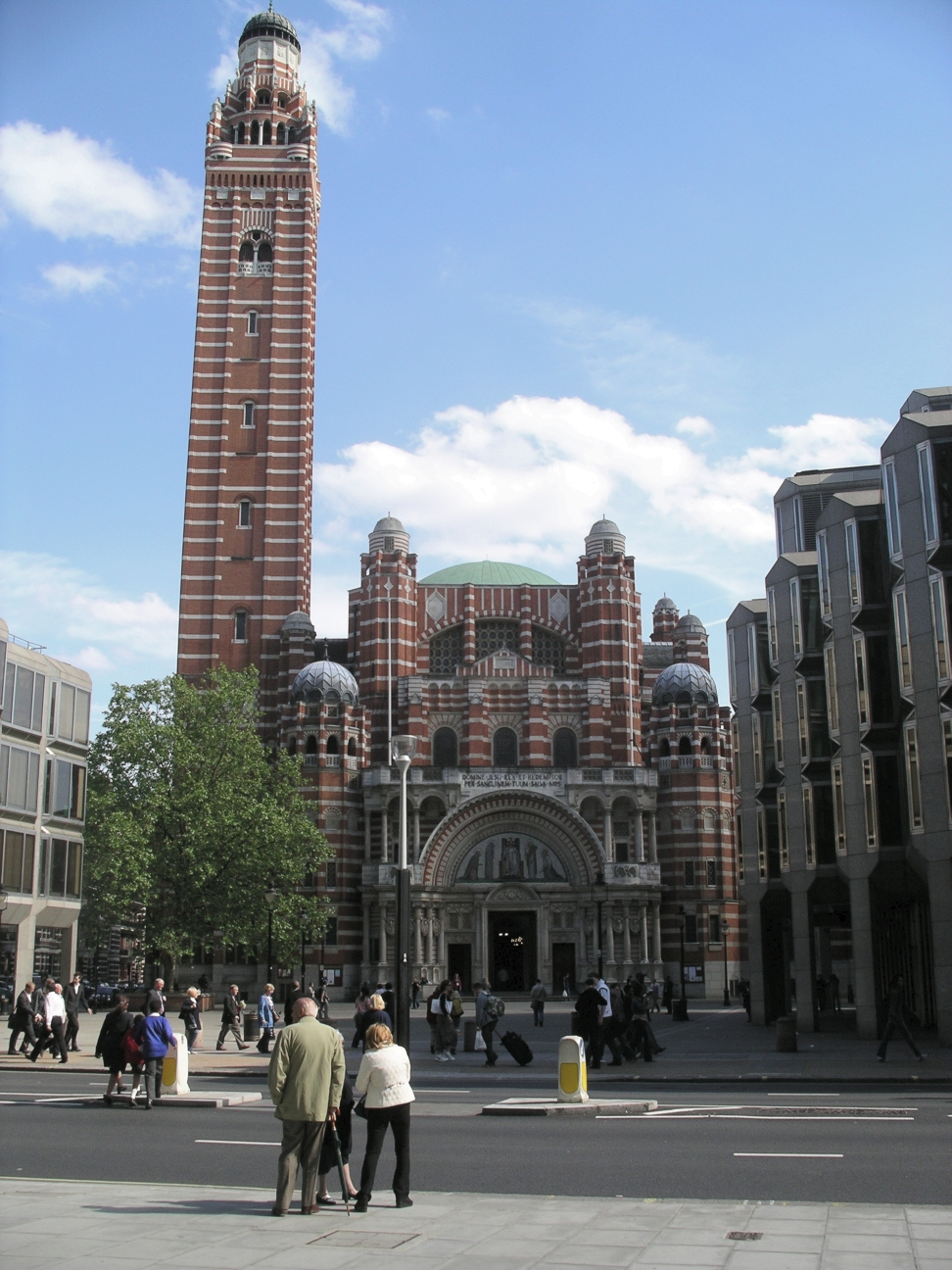 Front of Westminster Cathedral